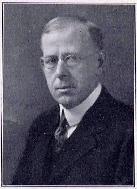 Photo of Fredrick W. Bradley.Sr.